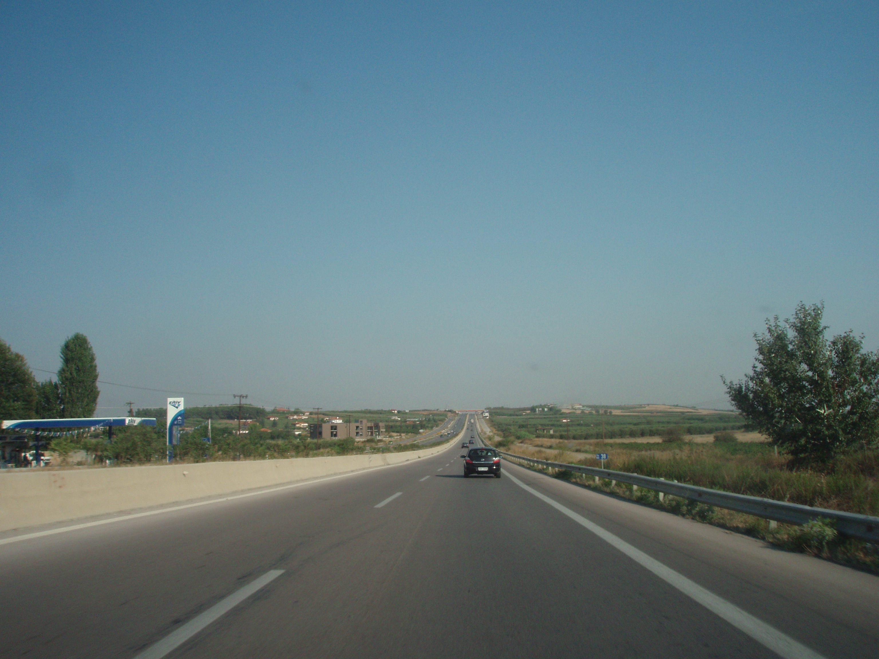 National Road 67, Greece. Section Nea Kallikratia-Thessaloniki. Road is equal to European motorway standards, yet not officially upgraded.